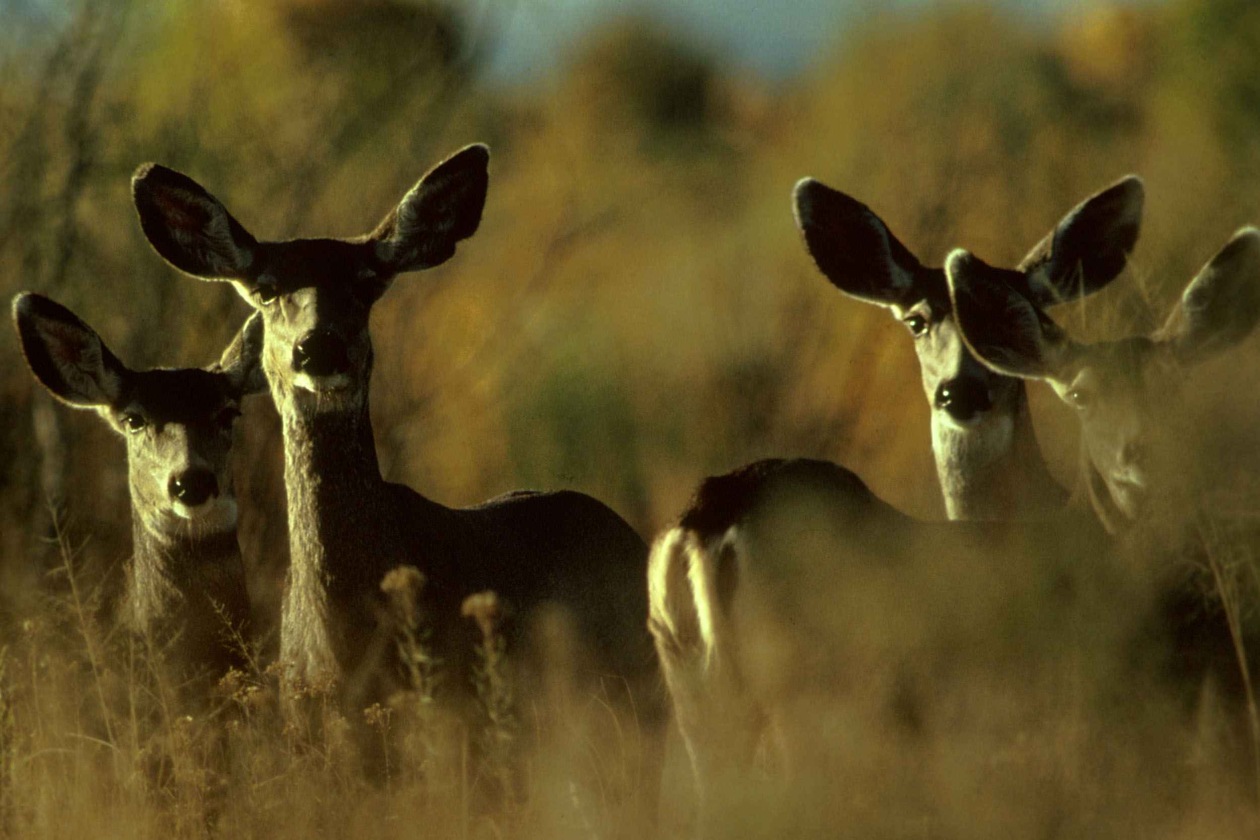 Image title: Mule deer animal herd Image from Public domain images website